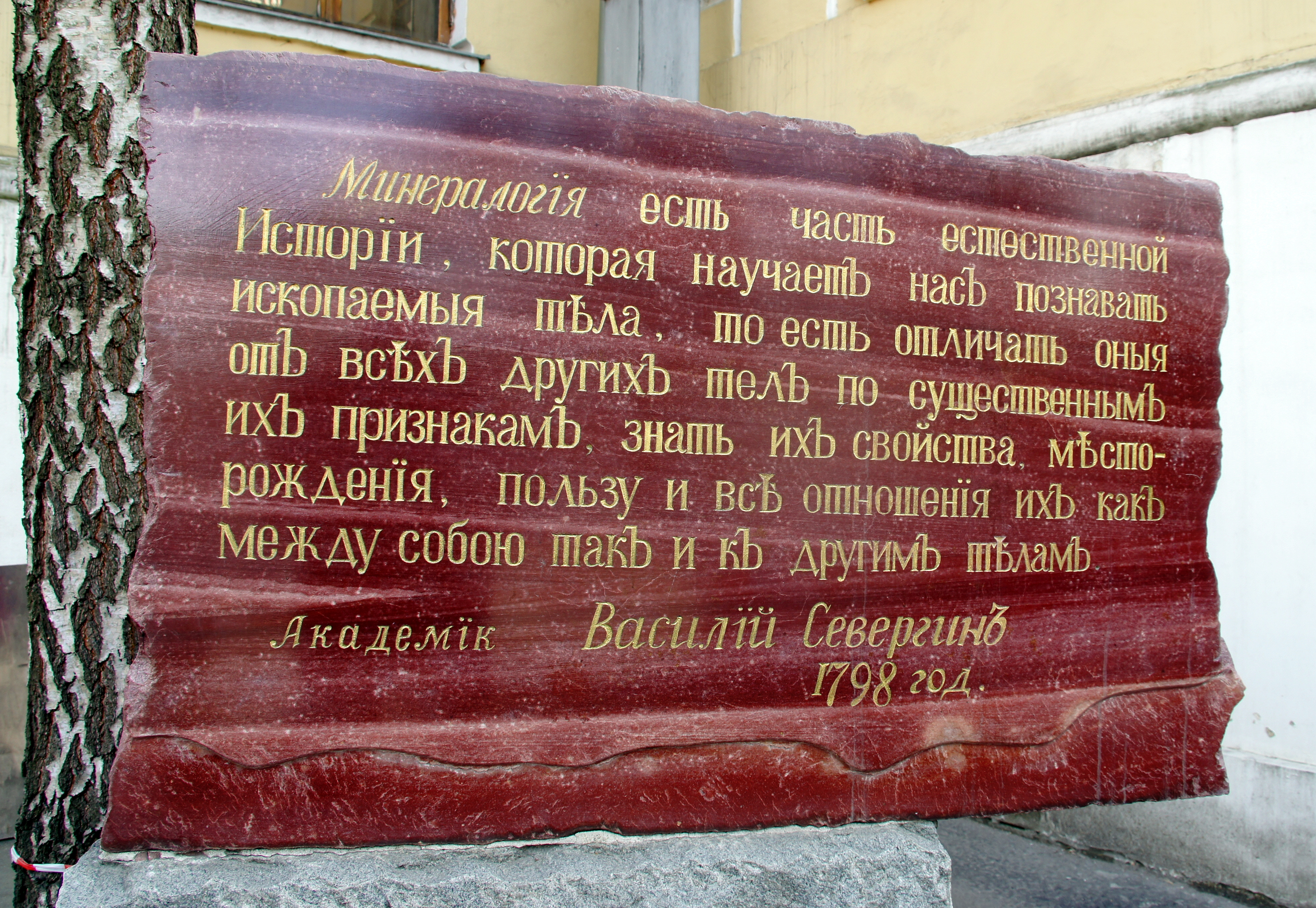 Vasiliy Severgin Quote on the Monument